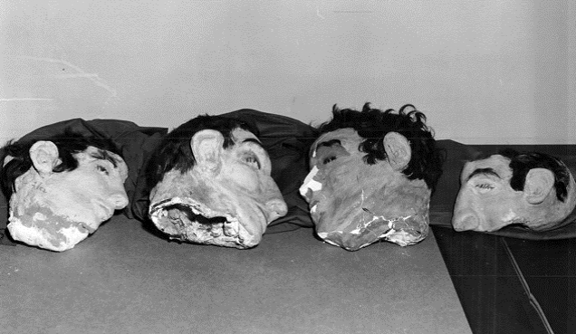 Fake Heads